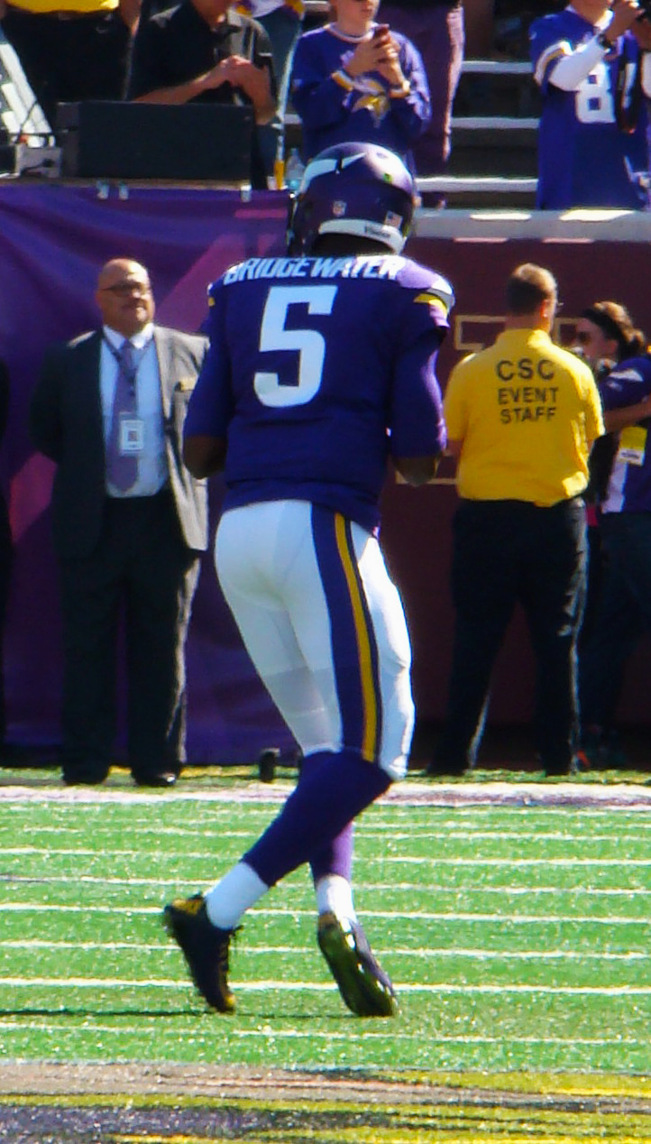 Minnesota Vikings QB Teddy Bridgewater during week 2 match versus the Patriots